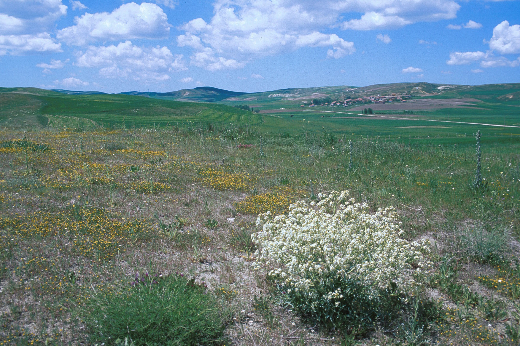 Rest of the Anatolian Steppe with Crambe tatarica, in the background fields.- Ahiboz, c.35 km south of Ankara, c.1000 m s.l. on 19.5.2000. From: G. Pils: Flowers of Turkey - a photo guide.- 448 pp.– Eigenverlag Gerhard Pils (2006).